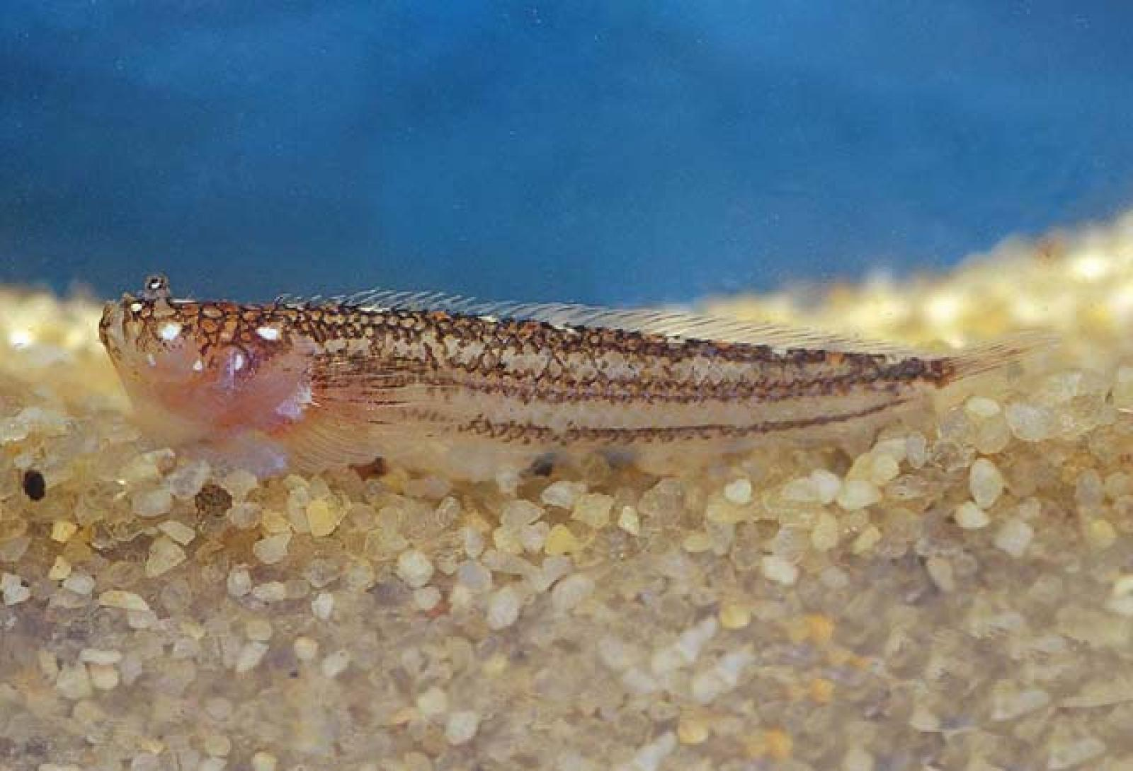 Dactyloscopus byersi El Salavador